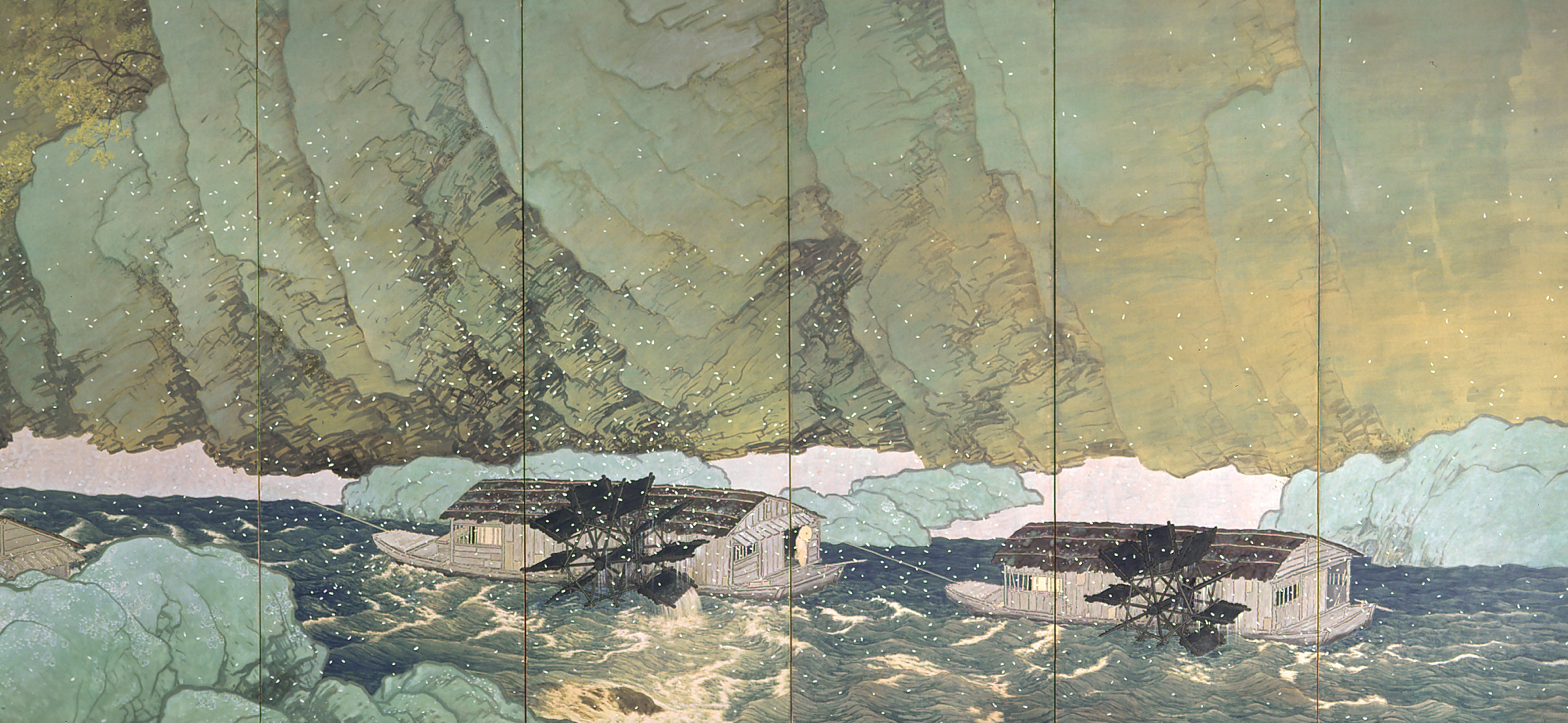 Parting Spring (right panel), by Kawai Gyokudo, National Museum of Modern Art, Tokyo, Japan, Important Cultural Properties of Japan.